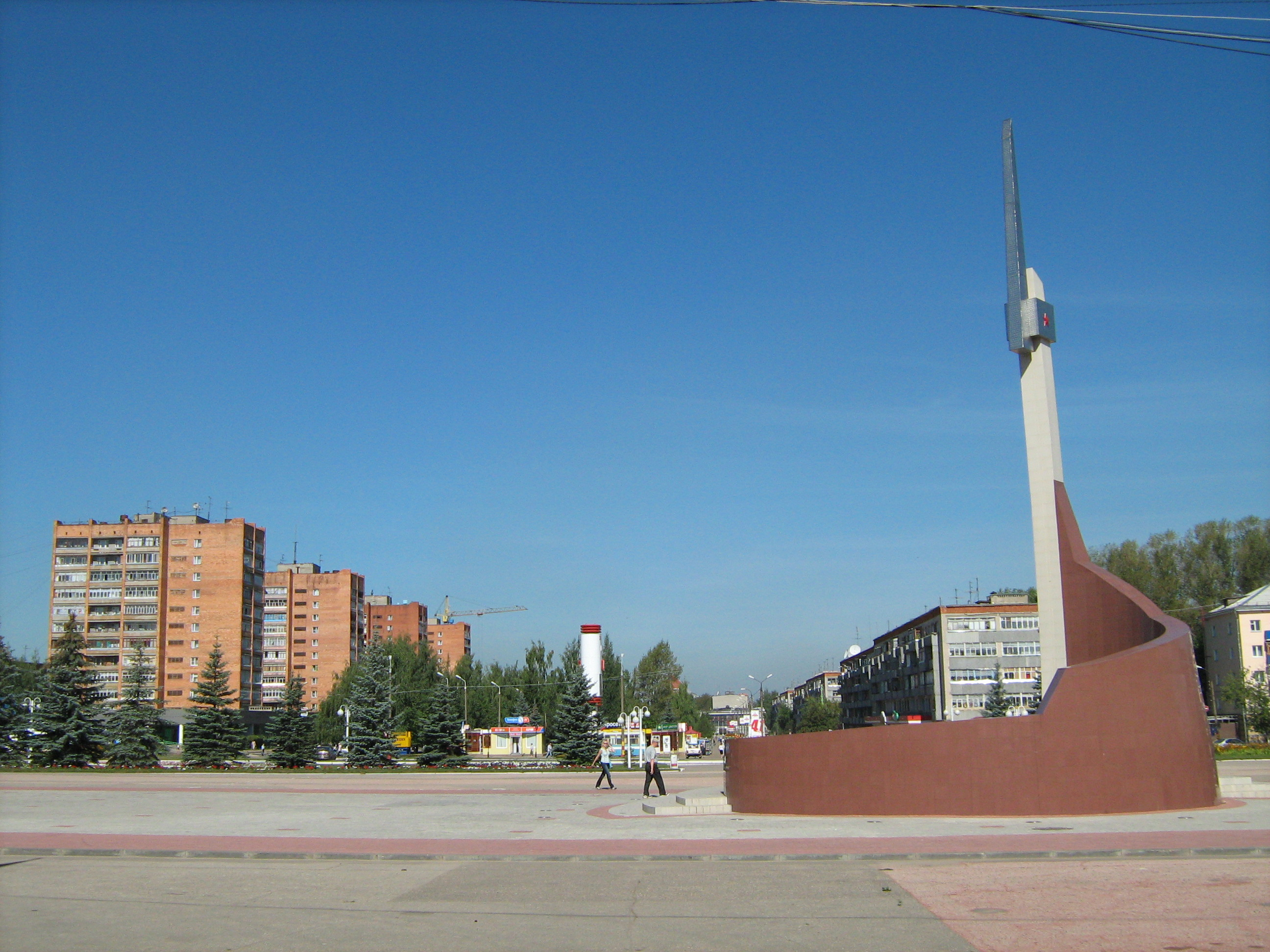 Ploshchad' Mira (Peace Square) and Bulvar Mira (Peace Blvd)